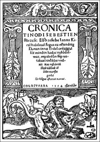 Cronica by Sebestyén Tinódi Lantos, 1554